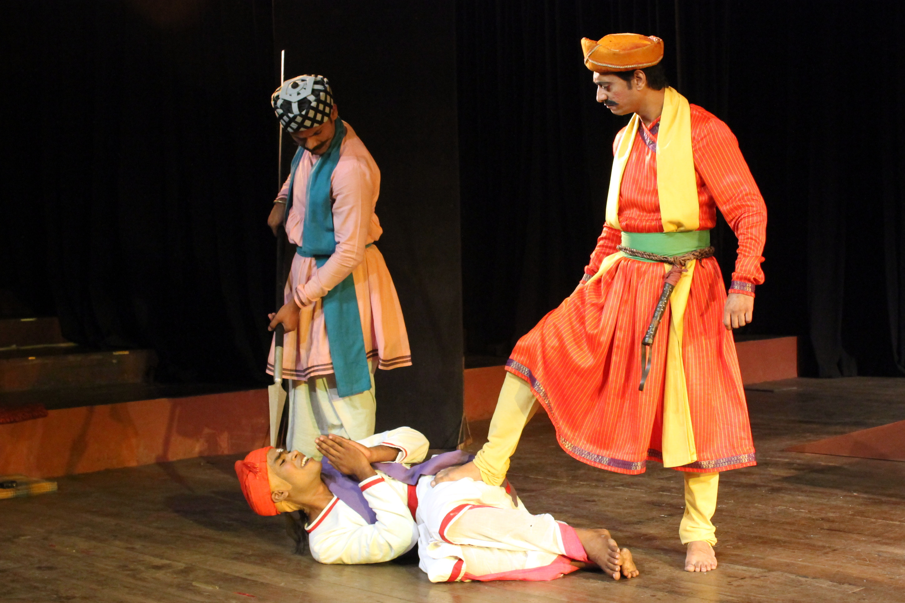 Ghasiram Kotwal play at Bharat Bhavan Bhopal